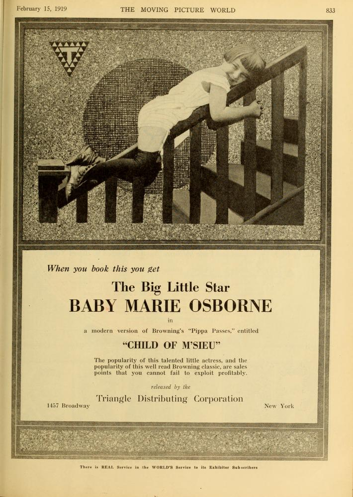 Advertisement in Moving Picture World for the film Child of M'sieu (1919) with Baby Marie Osborne.